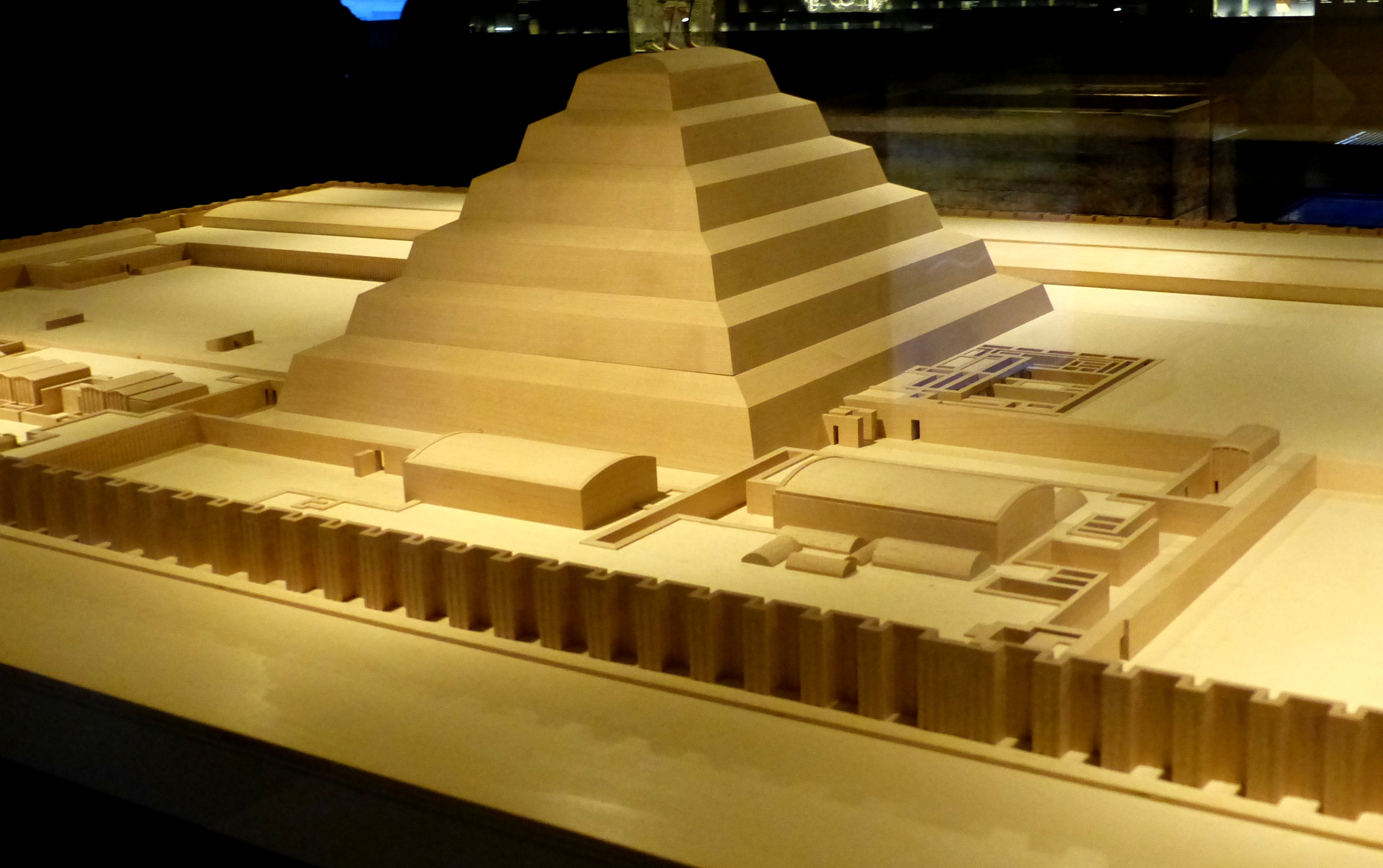 Rosenheim ( Upper Bavaria ). Lokschuppen exhibition centre - "Pharao" exhibition ( 2017 ): Model ( 1:250 ) of the pyramid complex in Saqqara, Old Kingdom, 3rd dynasty ( 2690-2670 BC )